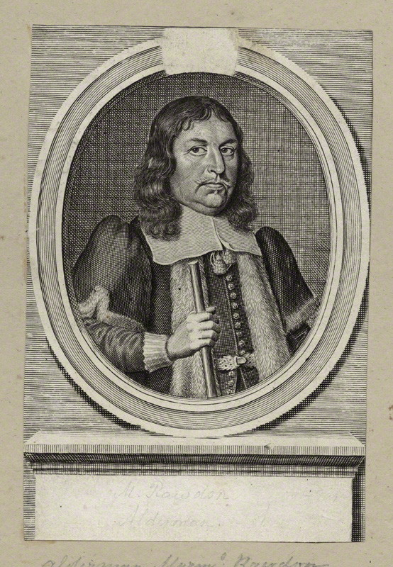 Portrait of Marmaduke Rawdon (1610–1669), English traveller and antiquary.